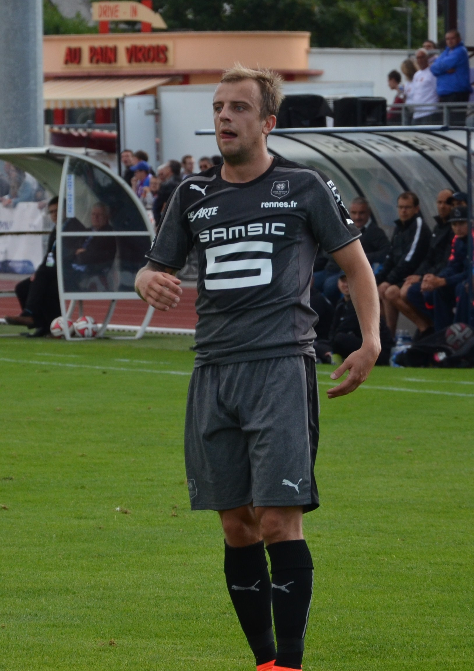 Kamil Grosicki during a friendly match opposing Stade Malherbe de Caen and Stade rennais, the July 9th of 2014 at Pierre-Comte de Vire stadium.